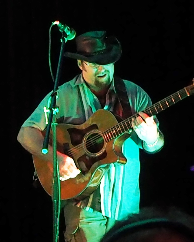 Adam Stemple performing in reunion concert of Cats Laughing at Minicon, April 2015